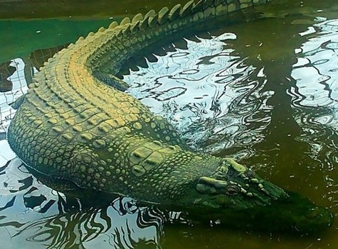 This is Lolong, the giant saltwater crocodile (Crocodylus porosus) captured in Bunawan, Agusan del Sur. He weighs 2,370 pounds (1,075 kg) and has a length of 20 feet 3 inches (6.17 m).